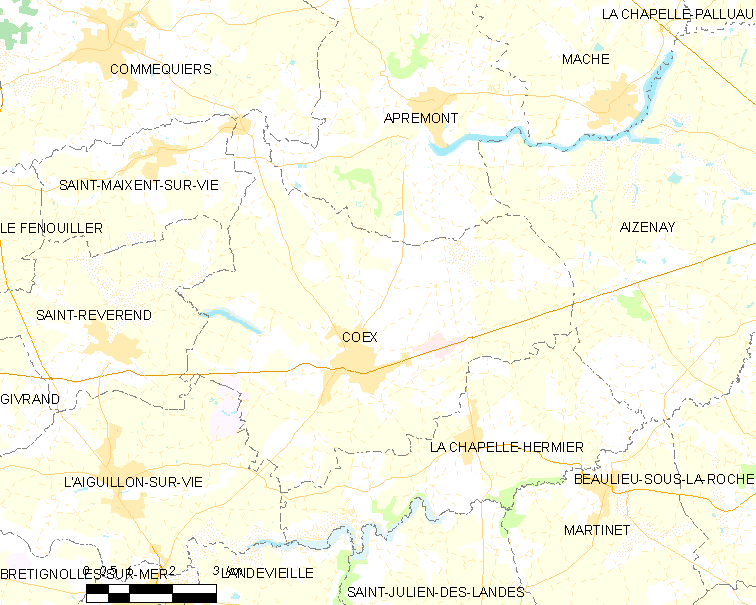 Map of French municipality Coëx